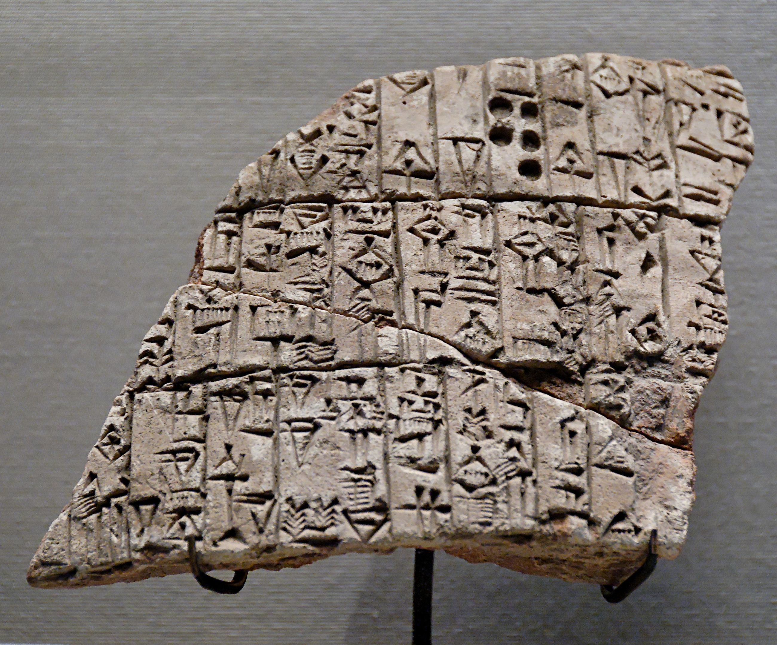 Fragment of an inscripted clay cone of Urukagina (or Uruinimgina), lugal (prince) of Lagash. The inscription reads: "He [Uruinimgina] dug (…) the canal to the town-of-NINA. At its beginning, he built the Eninnu-(E-ninnu or Temple-Ninnu); at its ending, he built the Esiraran".